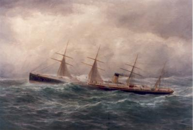 Celtic, by George Parker Greenwood